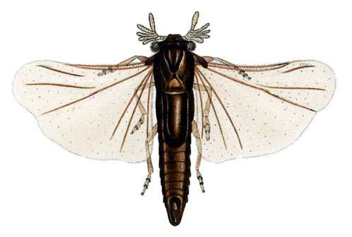 Halictophagus australensis